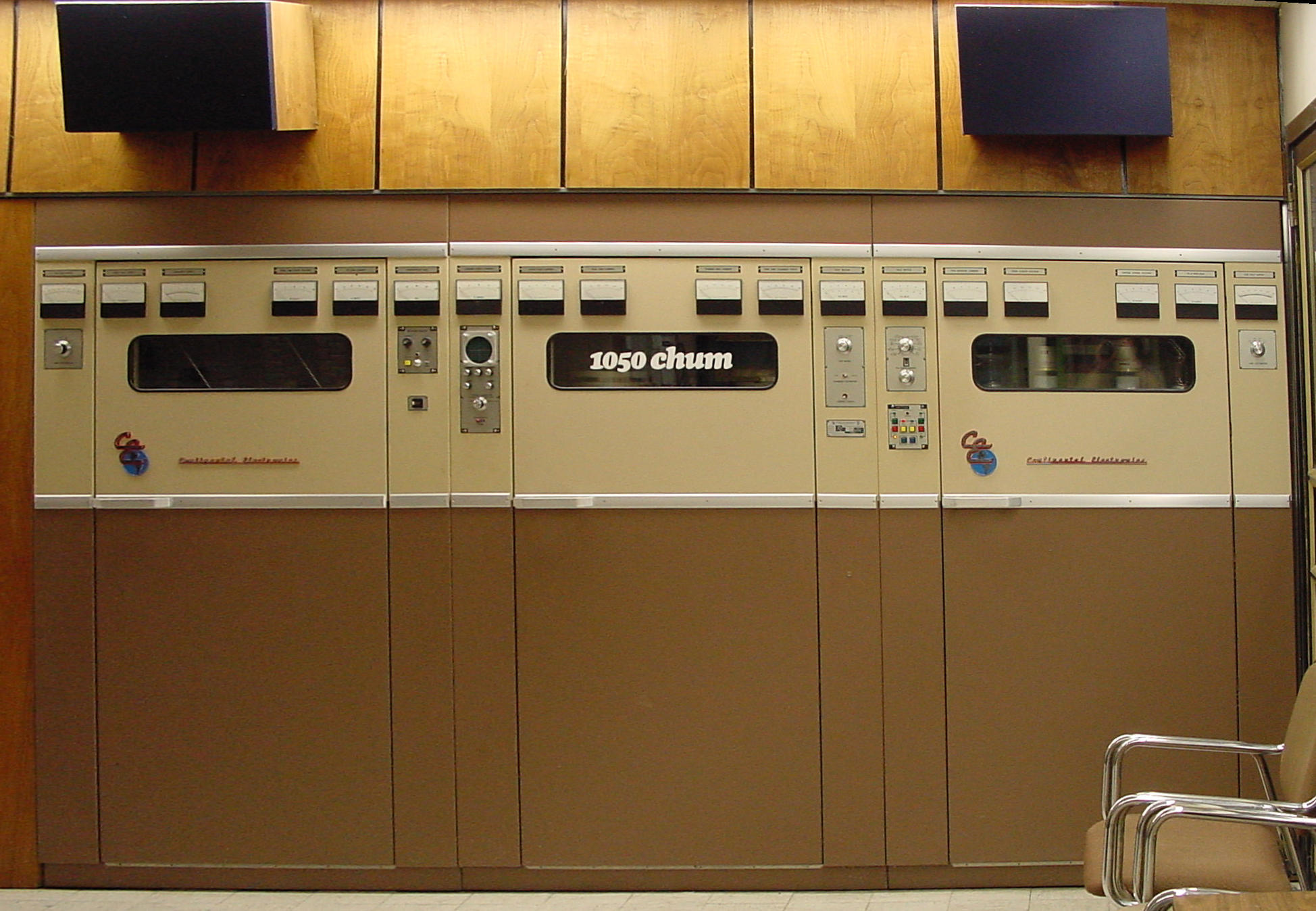 A Continental type 317C-2 transmitter, serial number 299, photographed in Missisauga, Ontario at the CHUM (1050 Toronto) transmitter site. This unit was previously CHUM's main transmitter, but at the time the photograph was taken it had been relegated to backup service by a new Harris DX-50. Image adjusted with hugin to reduce perspective distortion.